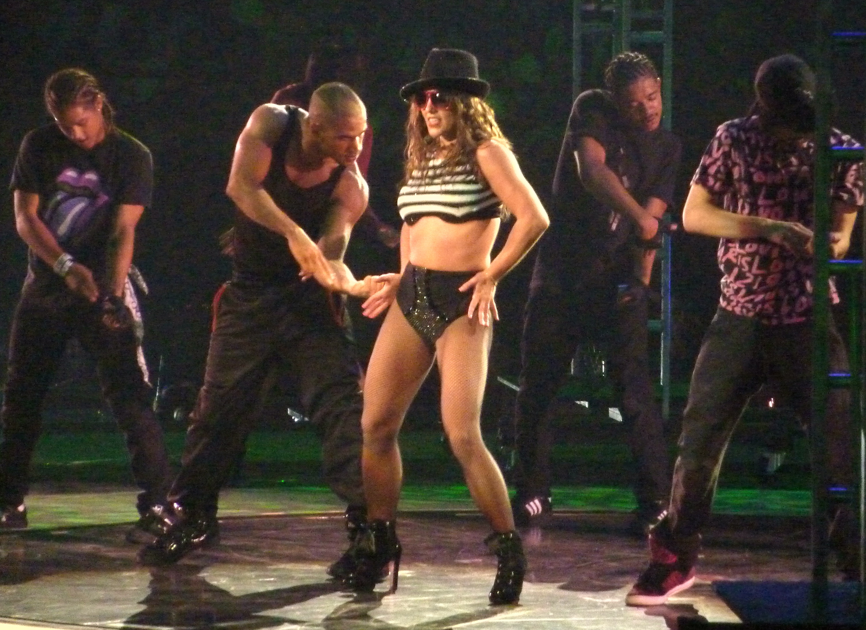 Performing Toxic